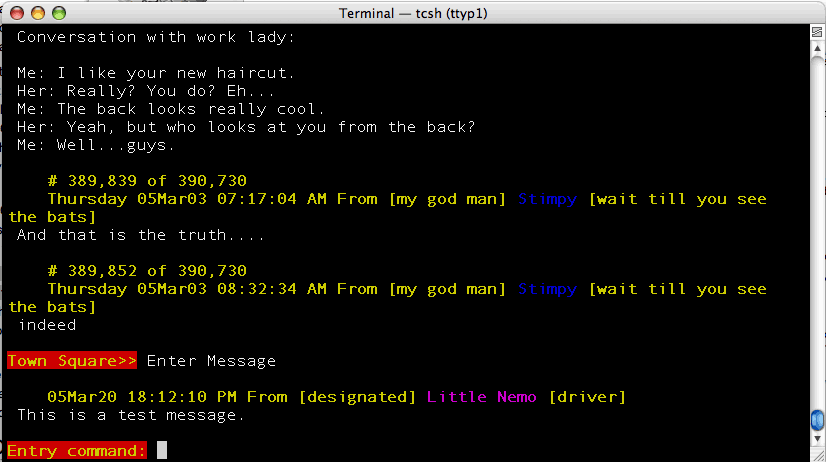 Typical Citadel BBS screen, showing messages, a message entry area, and a message save prompt. Screenshot of Slumberland BBS.